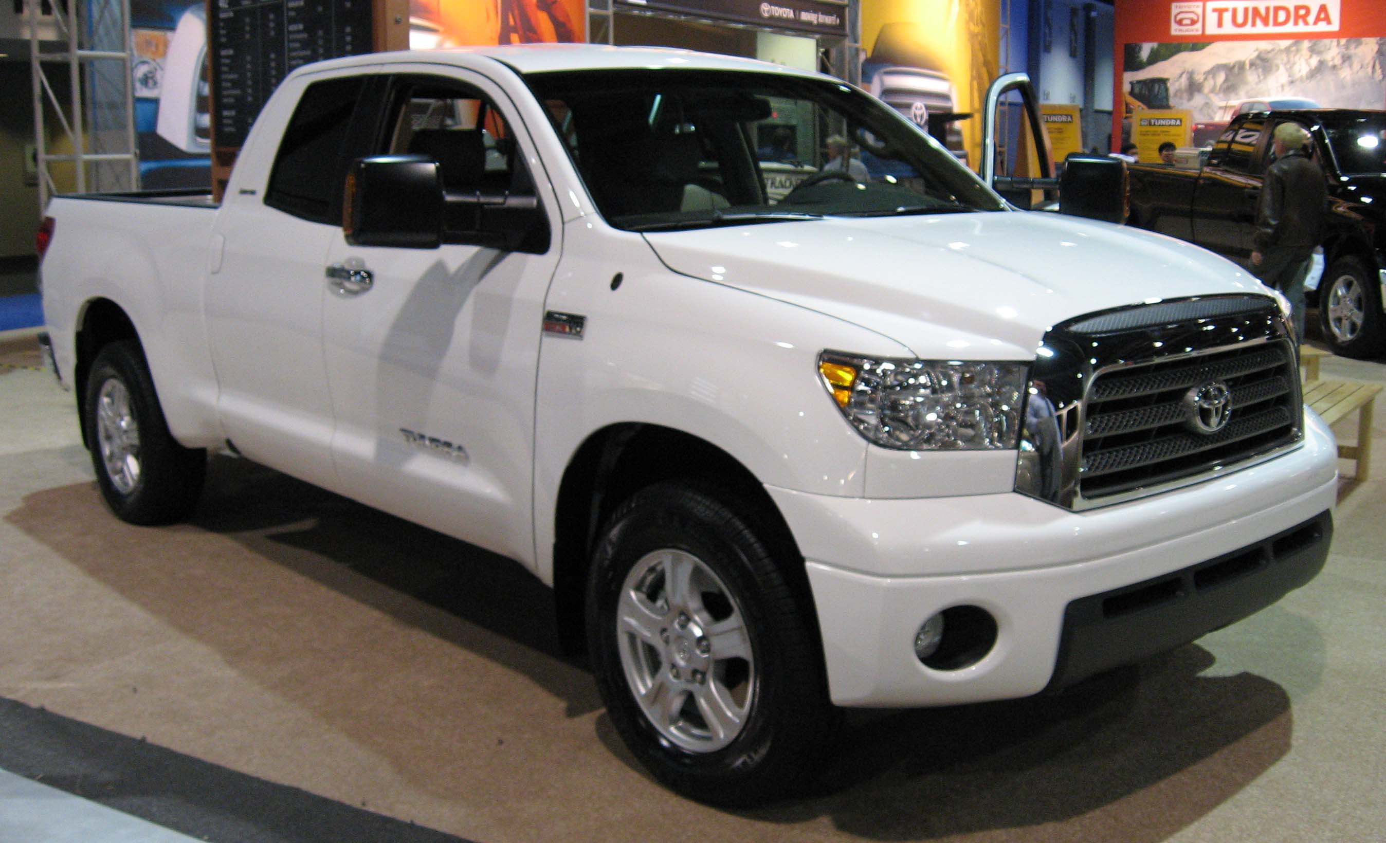 2007 Toyota Tundra photographed at the Washington Auto Show.